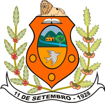 Menu: Creates the "Coat of Arms", representing the city of Belo Jardim and other measures. Article 1 - It is created by this Act, the Coat of Arms representative of Belo Jardim. Article 2 - The Executive Branch is authorized under this Act, the regulations which should be the representative Coat of Arms of Belo Jardim. Article 3 - The Coat of Arms representative of Belo Jardim has the following decision: 1 - A lion above the shield, and below its body a book that means: A tribute paid to the State of Pernambuco, assistance and respect for knowledge; 2 - The coat of orange color serves as a protection to all that concerns the development of the city. We see three circles of yellow-gold, representing the districts, which cooperate in the protection and enhancement of economic and social Municipality; 3 - In the circle ovulated, we find representations of the industries, fields and marshes, the tree is a tribute to the flowers as well as the "Drum", whose scientific name is Enterolobium CONTORTISILIQUUN who joined our history, and finally the Rio Bitury source all our progress; 4 - Below, still inside the circle ovulated in yellow-gold background, the figure of the dove of peace; 5 - The coat itself is protected by two branches that communicate with one of coffee and another of tomato, key crops of agriculture Belo Garden; 6 - Below, on the basis of the whole system, claiming the coat, a white band, with the date representing the founding: September 11, 1928; Article 4 - This Act shall come into force on the date of its publication. Article 5 - revoked to the provisions of the substitute. Office of the Mayor, on April 23, 1977 José Fábio Galvão - Mayor -- Authors Coat: José Batista Albérico - Amendment Law and Promugação. Dr. Jose C. Osorio Neto - Creation and Development of artistic composition.